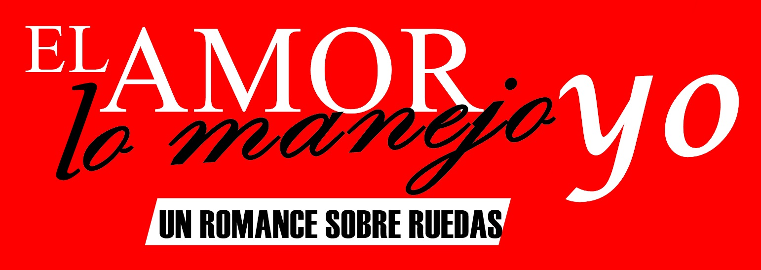 El amor lo manejo yo